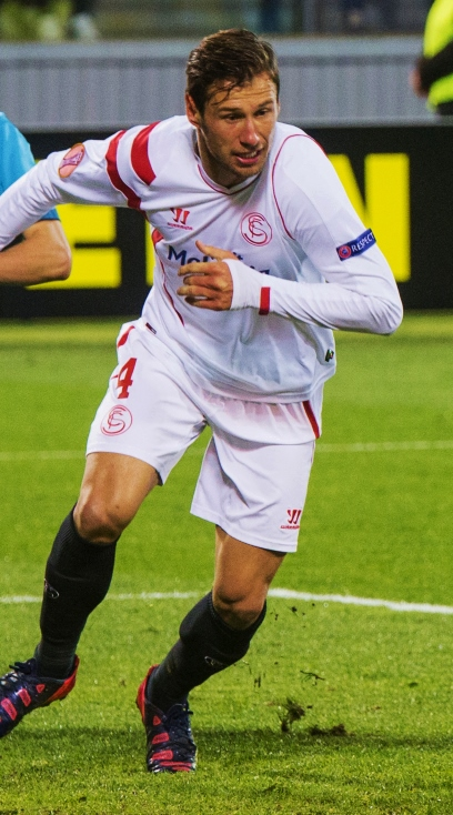 23.04.2015. Россия, Санкт-Петербург, стадион «Петровский». Лига Европы УЕФА 1/4 финала, «Зенит» — «Севилья». На снимке в синей форме: Grzegorz Krychowiak